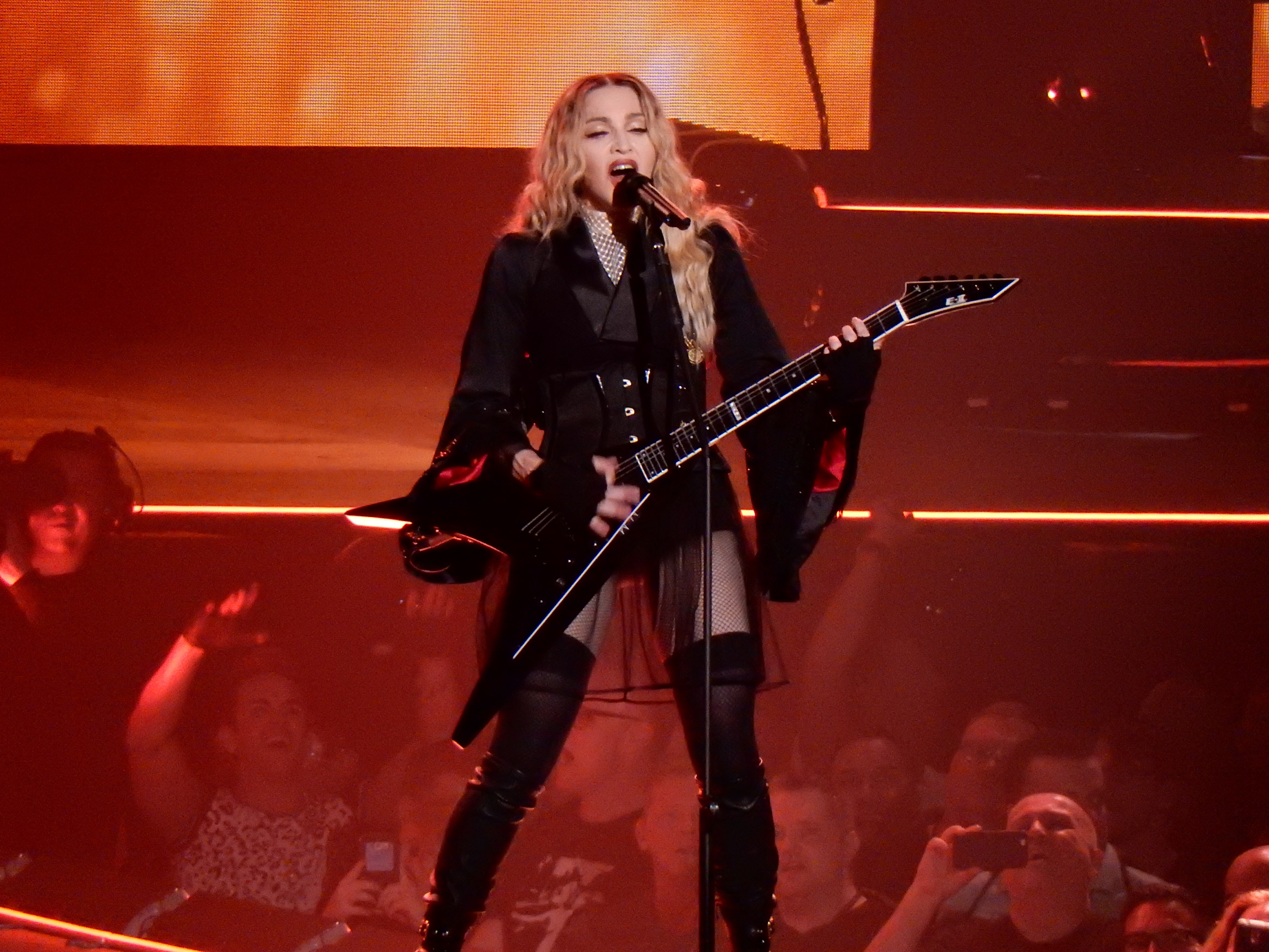 Madonna - Rebel Heart Tour 2015 - Washington DC